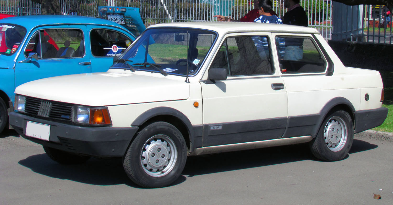 Fiat Oggi 1300 CS 1984